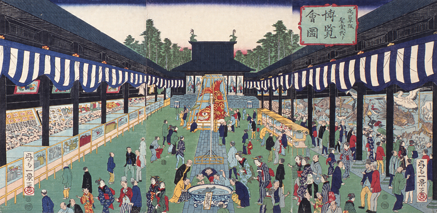 Ikkei Shosai's ukiyo-e triptych of the 1872 Yushima Seido Exhibition, the precursor to the Tokyo National Museum.